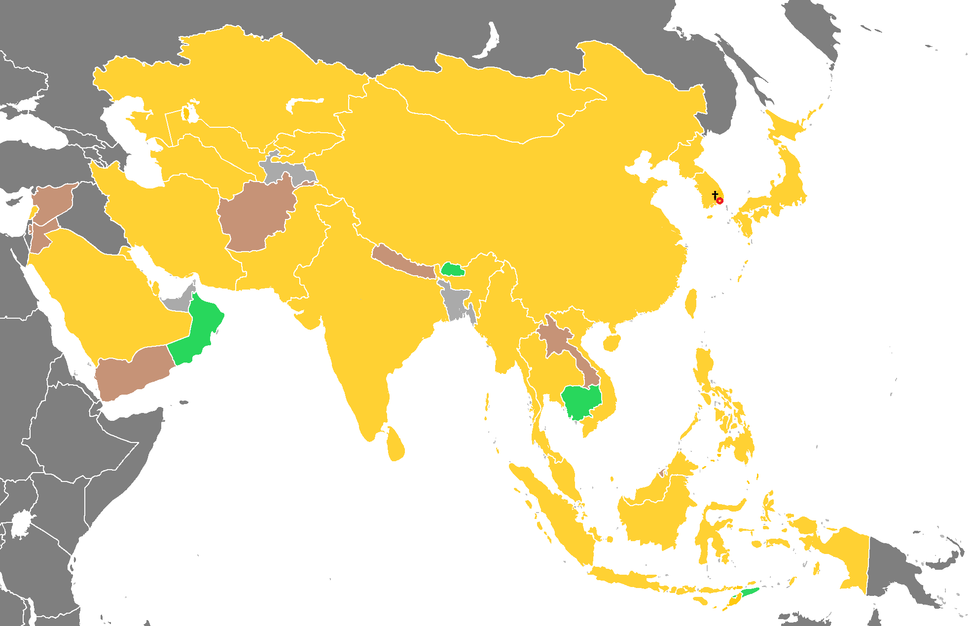 Gold for countries achieving at least one gold medal. Silver for countries achieving at least one silver medal. Bronze for countries achieving at least one bronze medal. Green for countries that did not get any medal. Gray for countries that are not part of the Olympic Council of Asia. A red circle displays the host city (Busan).